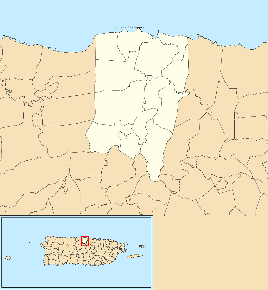 Barrios in the municipality. Map scale is 1:200,000